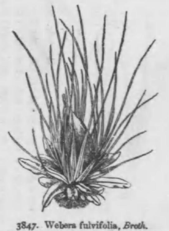 Diphyscium fulvifolium